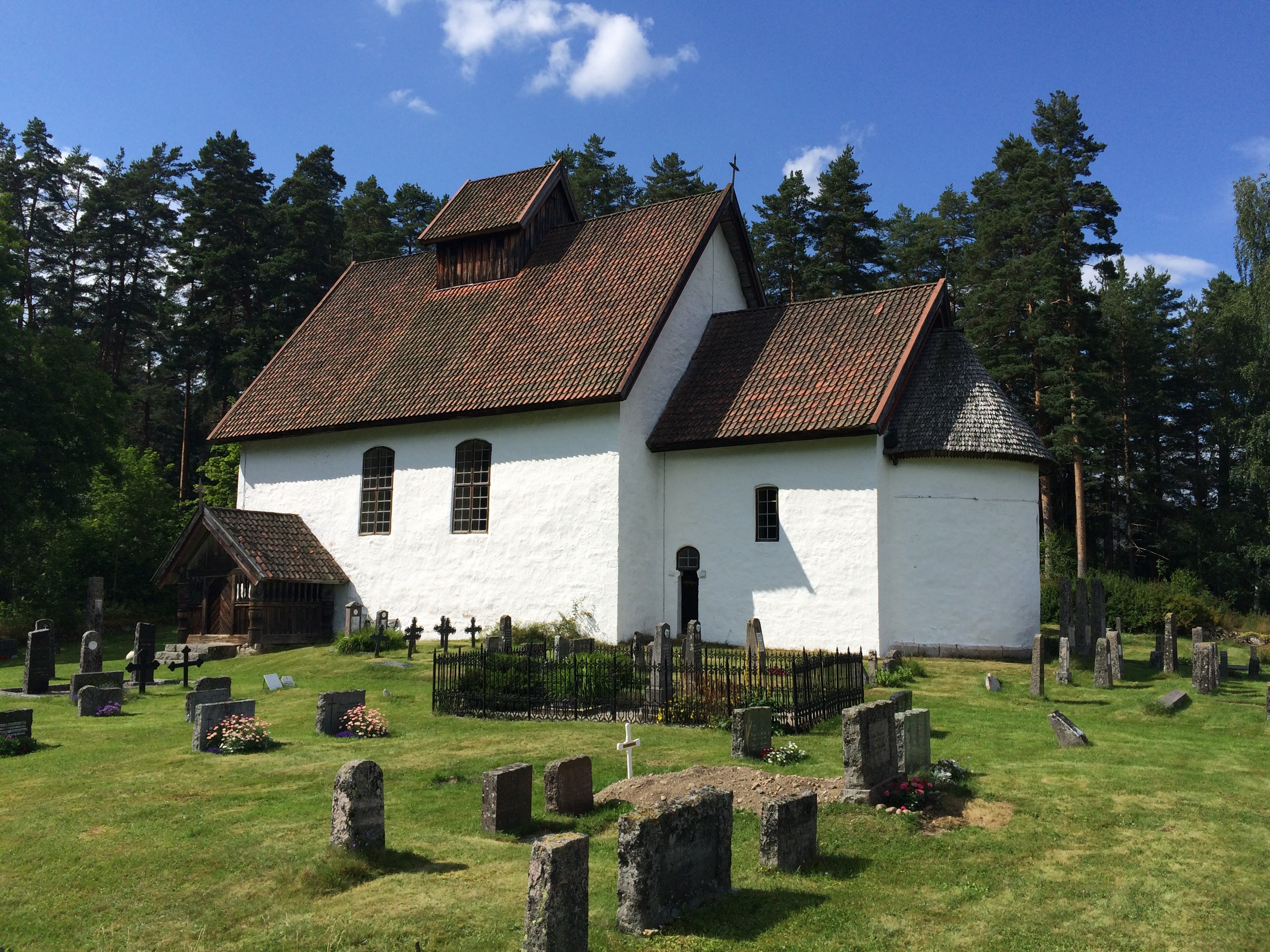 Kviteseid Old Church